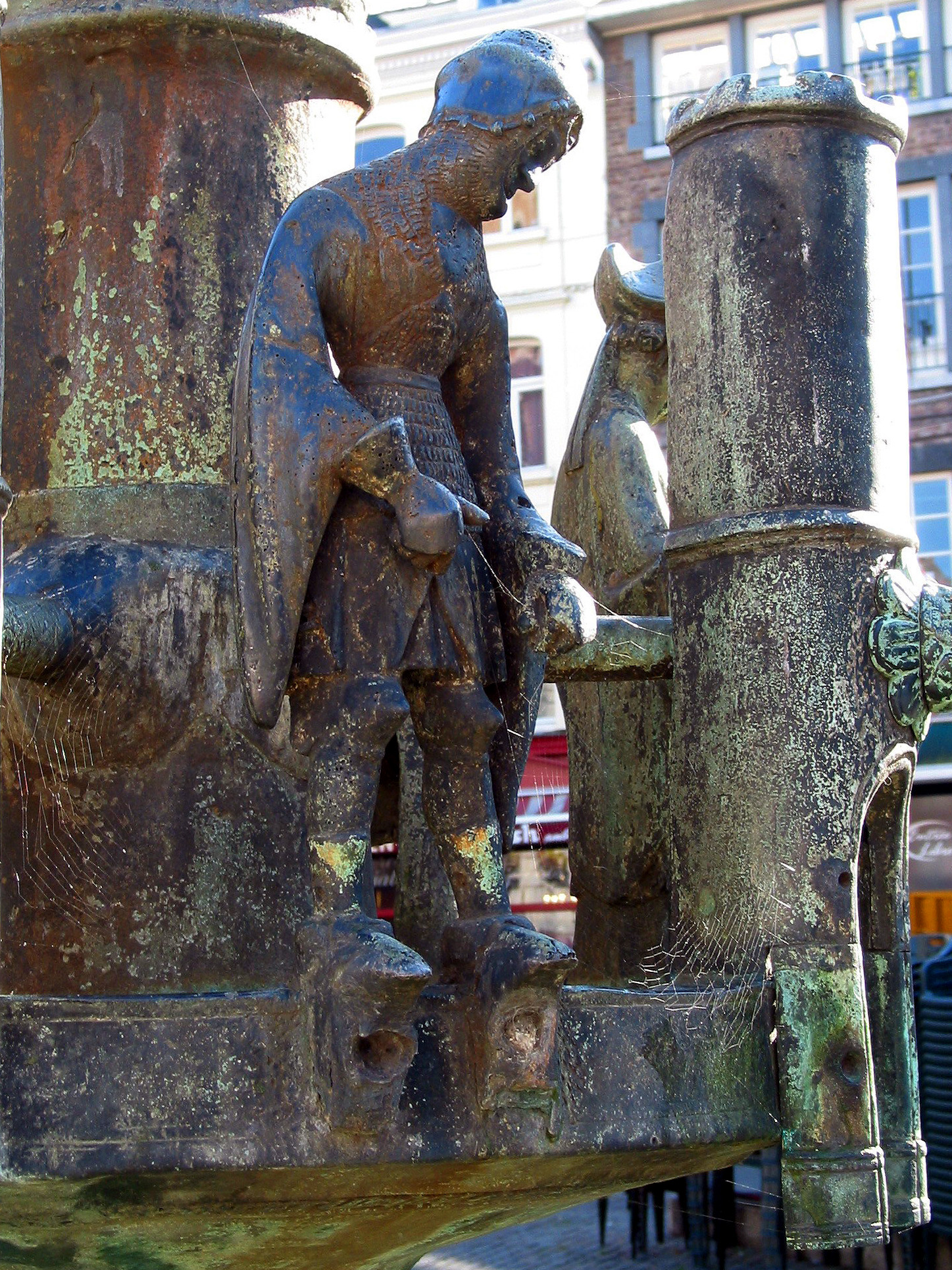 Huy (Belgium), small fine bronze of Saint Ansfried of Utrecht (1597) - upper part of the fountain "Li bassinia" (XV/XVIIIth centuries).